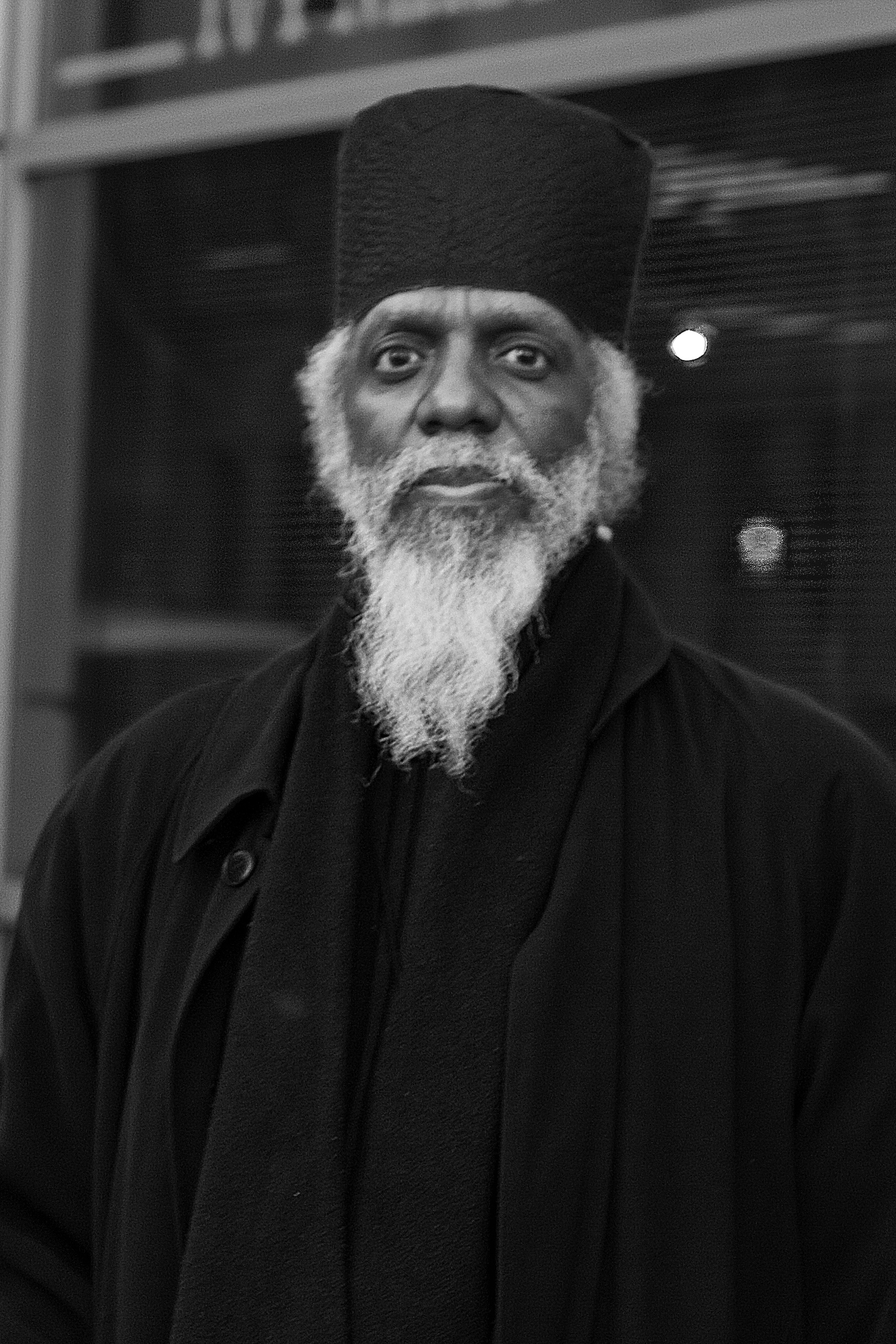 description: Dr. Lonnie Smith photographer: Jason Kuffer photographer_location: New York, NY photographer_url: [1] flickr_url: [2] taken:December 24, 2007